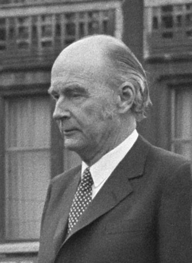 Irish President Patrick Hillery visiting the Netherlands; wreath laying at the monument on the Dam in Amsterdam